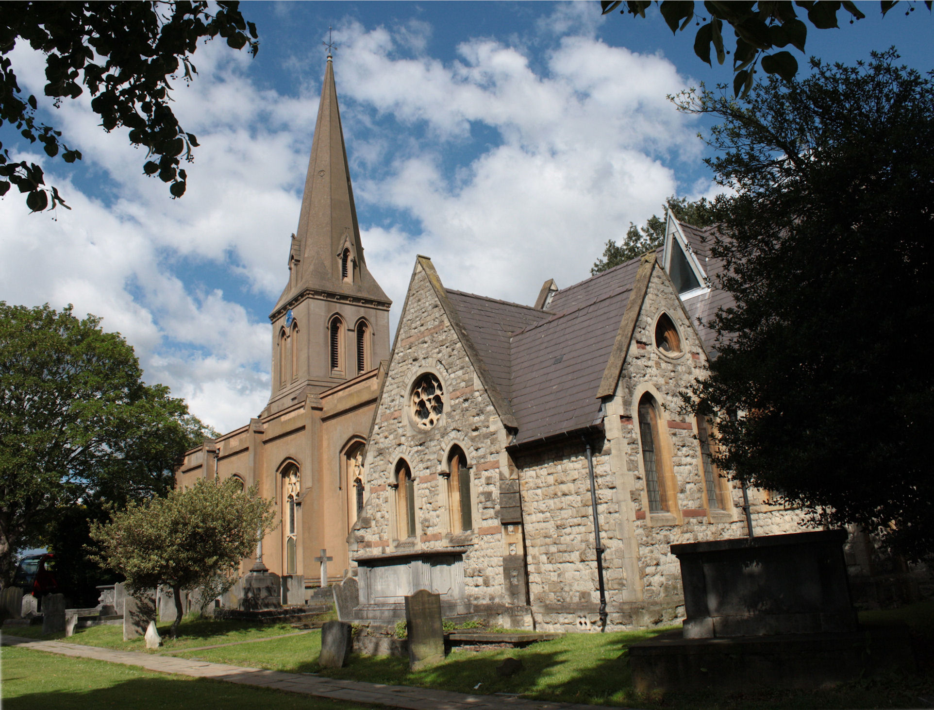 St Leonard's parish church, Tooting Bec Gardens, Streatham, London SW16, seen from the southeast. This church date from the 14th century and others from the Victorian era. It was extensively damaged by fire in 1975, when the interior was completely rebuilt to the design of Douglas Feast.